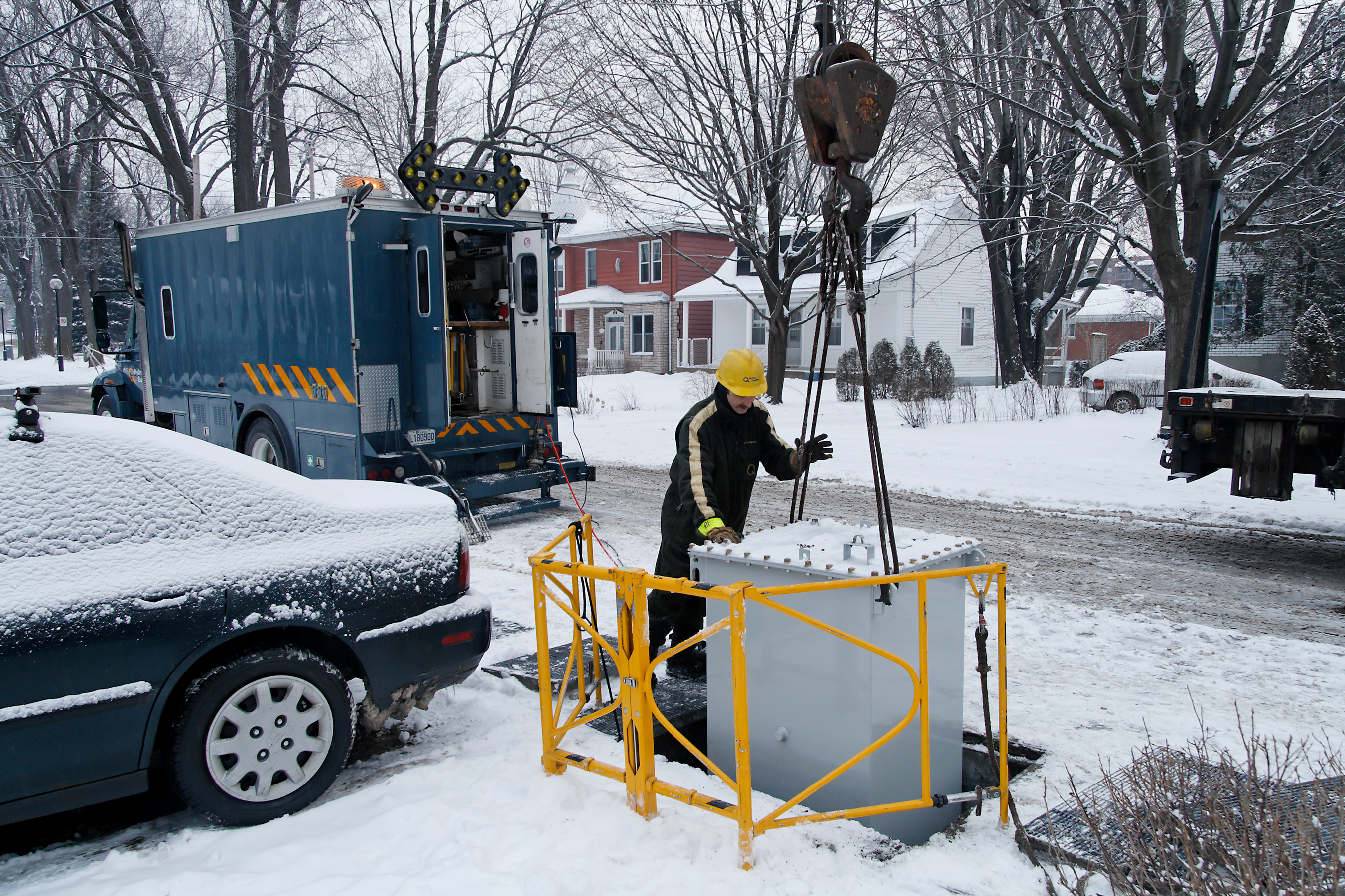 Installation of an underground transformer by a Hydro-Québec employee